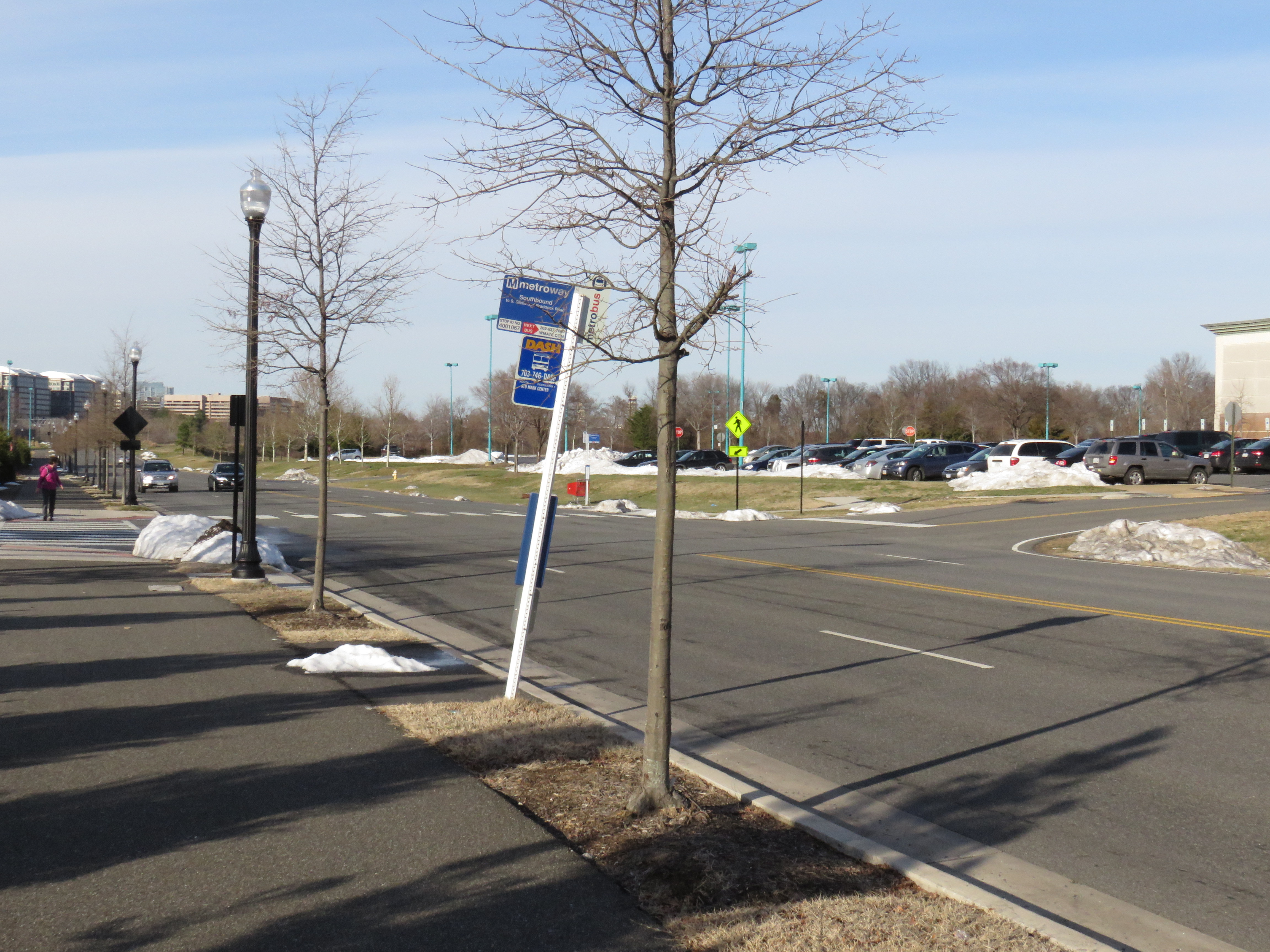 Reed Metroway station in Potomac Yard, Alexandria, Virginia in February 2016